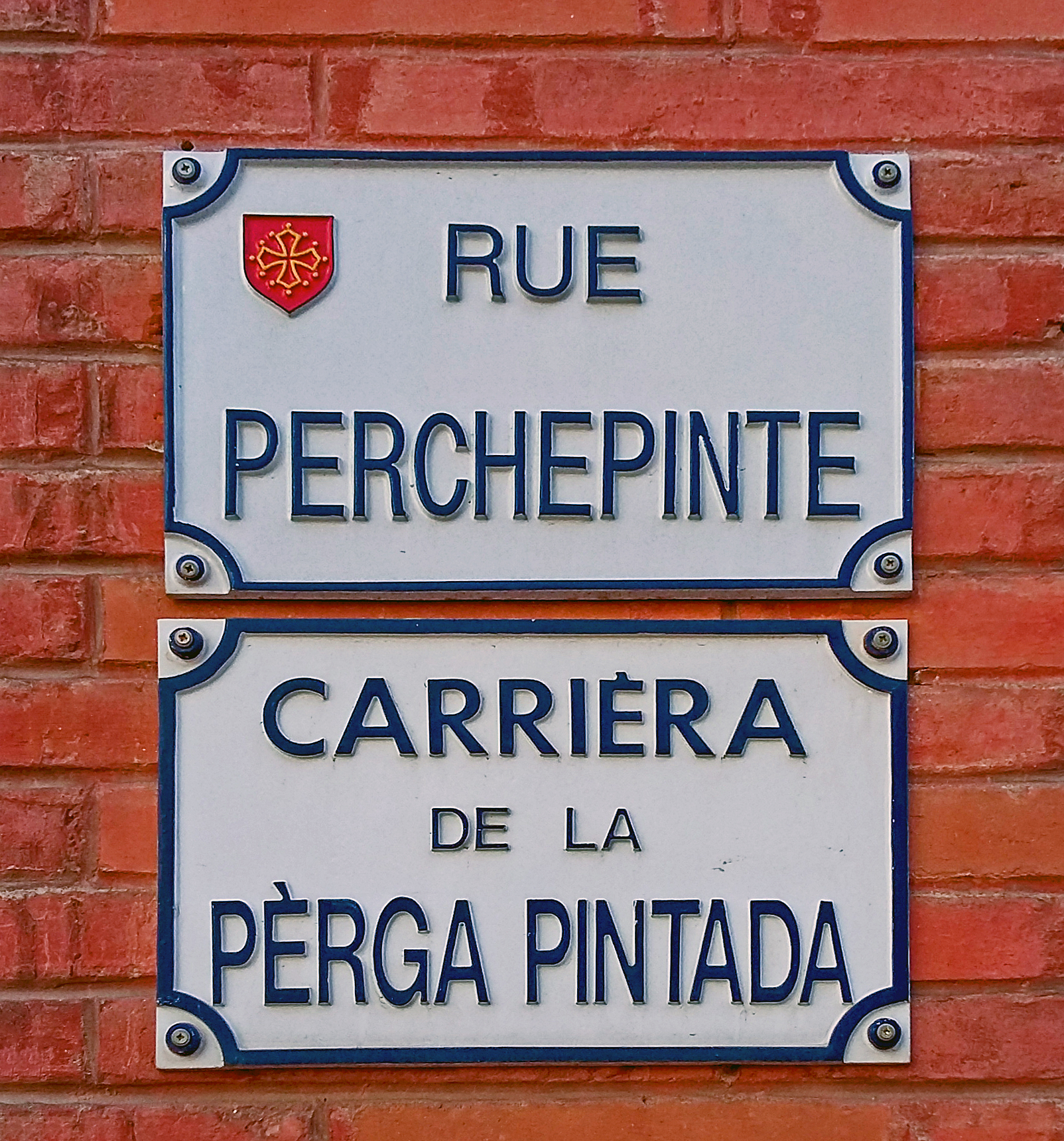 Rue Perchepinte, in Toulouse - Street name sign. They have the particularity of being: in French and Occitan.